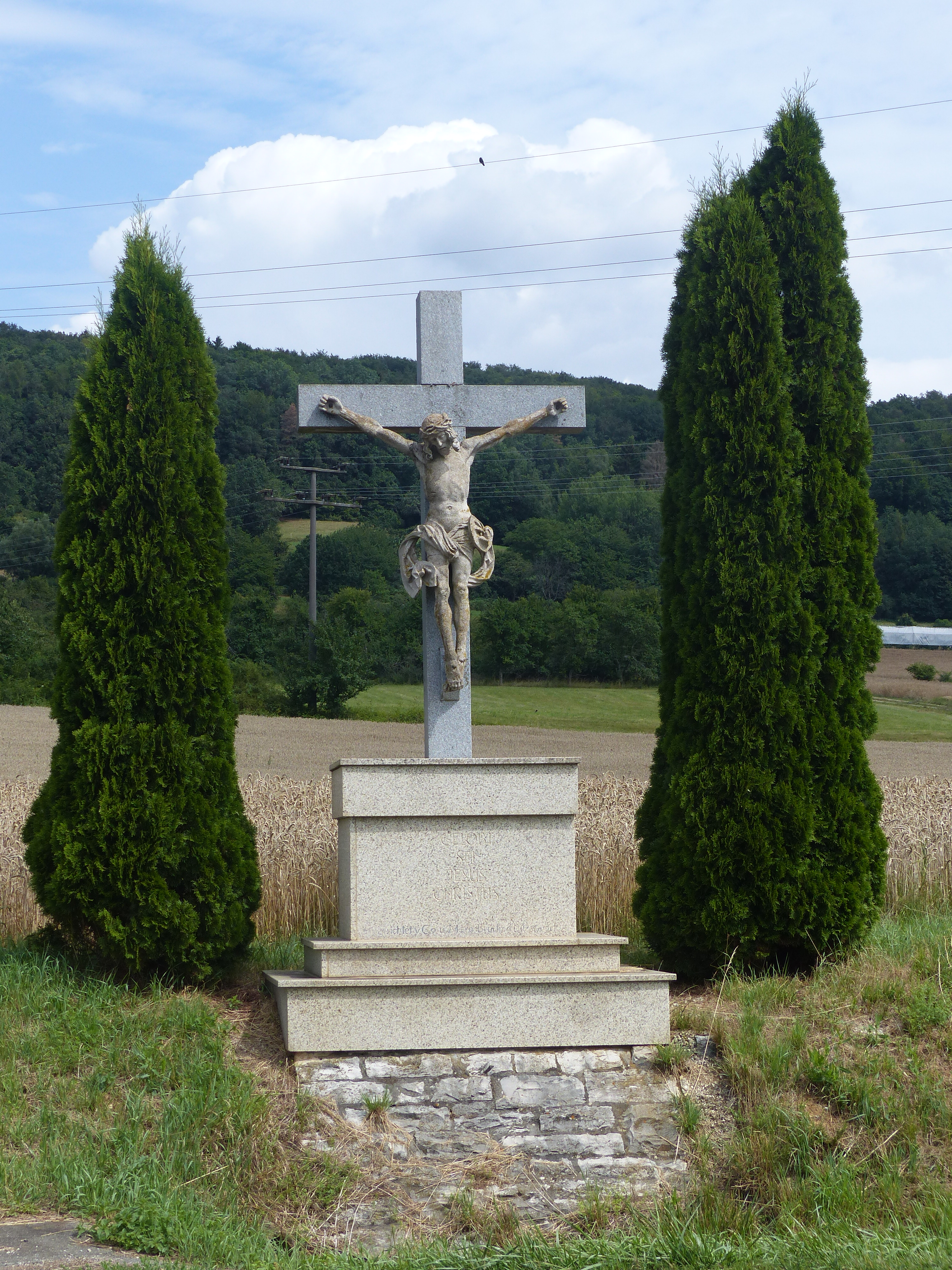 A granite wayside cross near the village Lützelsdorf, a district of the municipality of Pretzfeld.